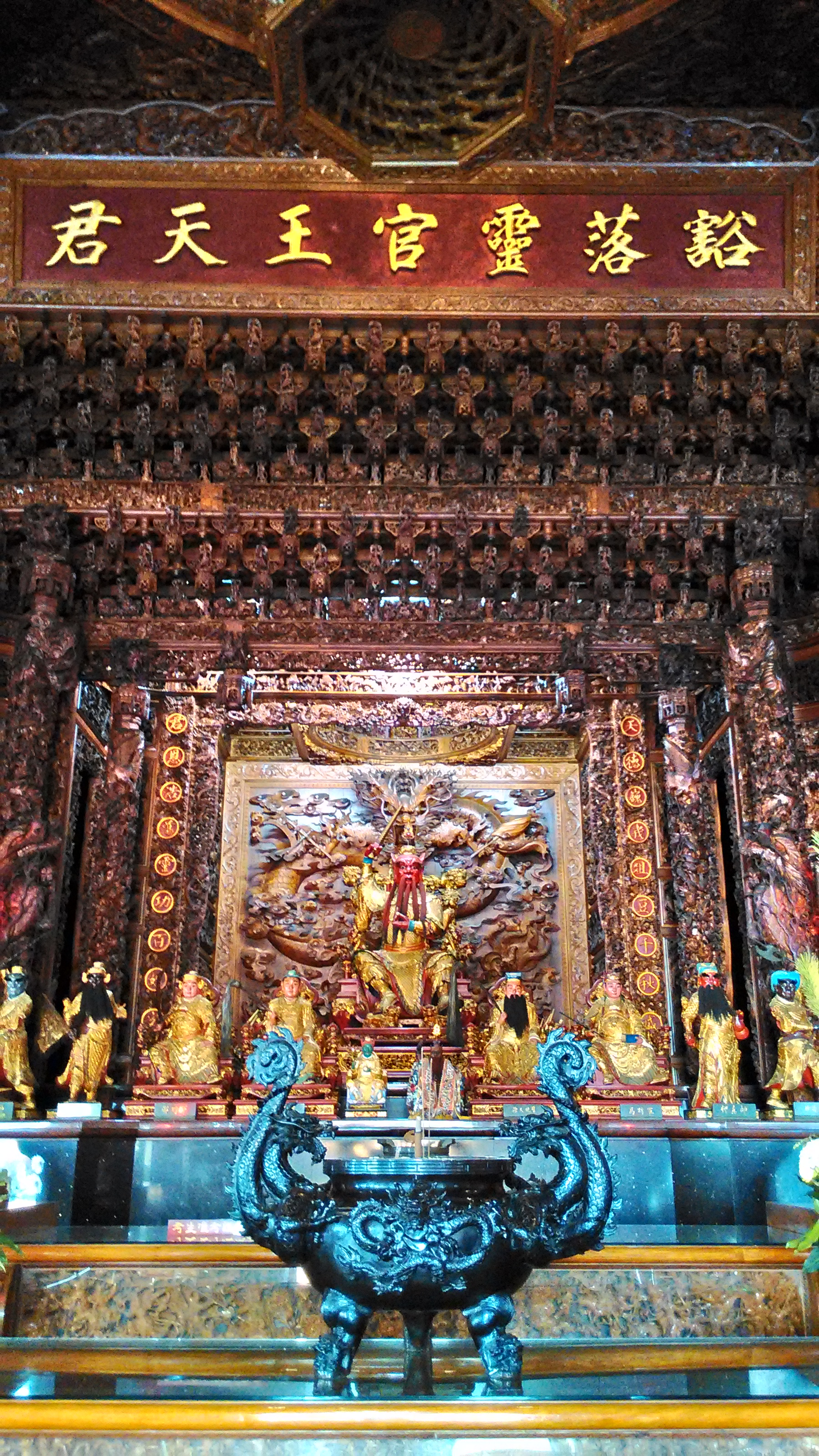 鳳邑豁落靈官殿王天君廟喚善堂二樓內部